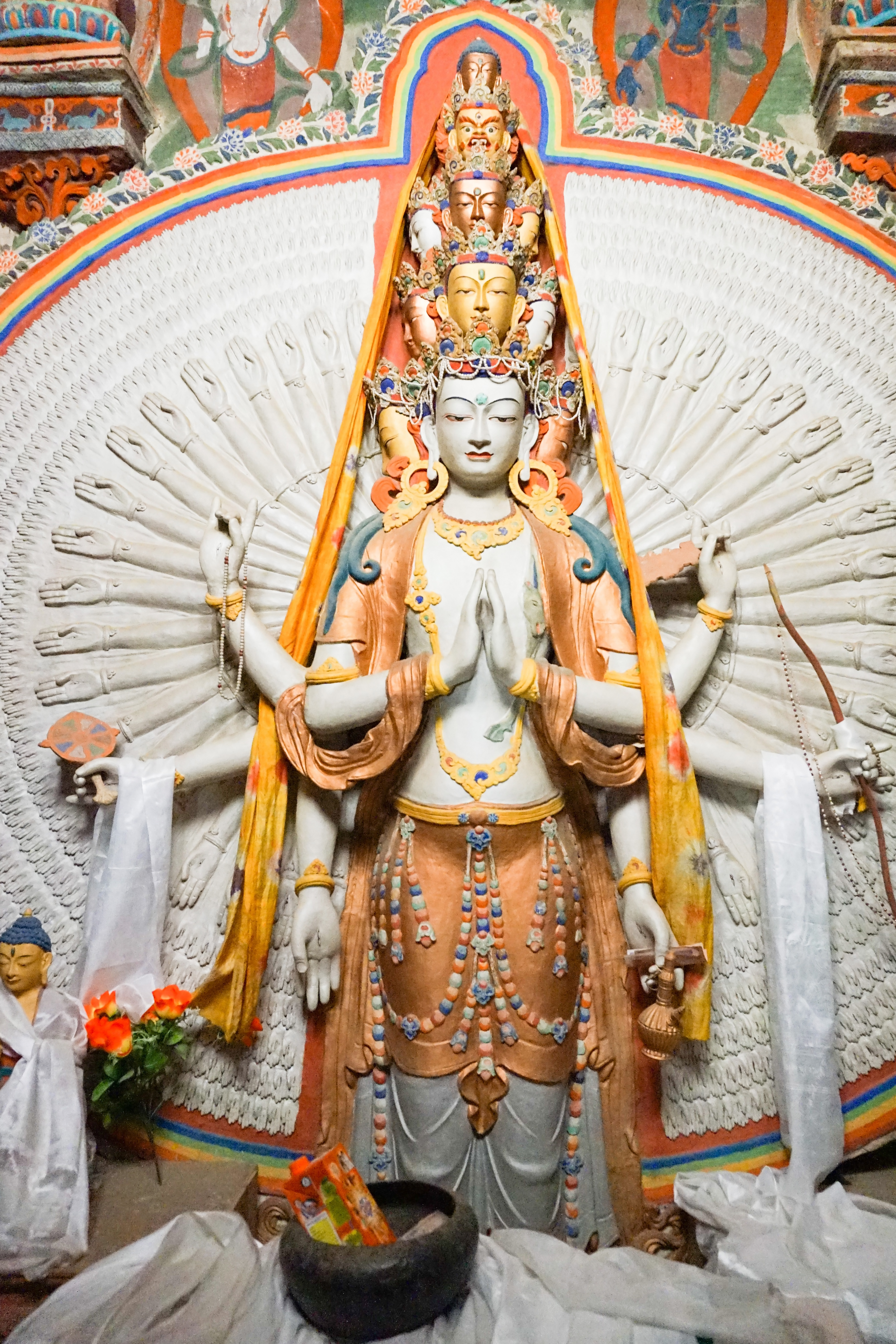 Statue of Avalokiteśvara in Chenrezi Lhakhang at Lamayuru Monastery, Ladakh, India